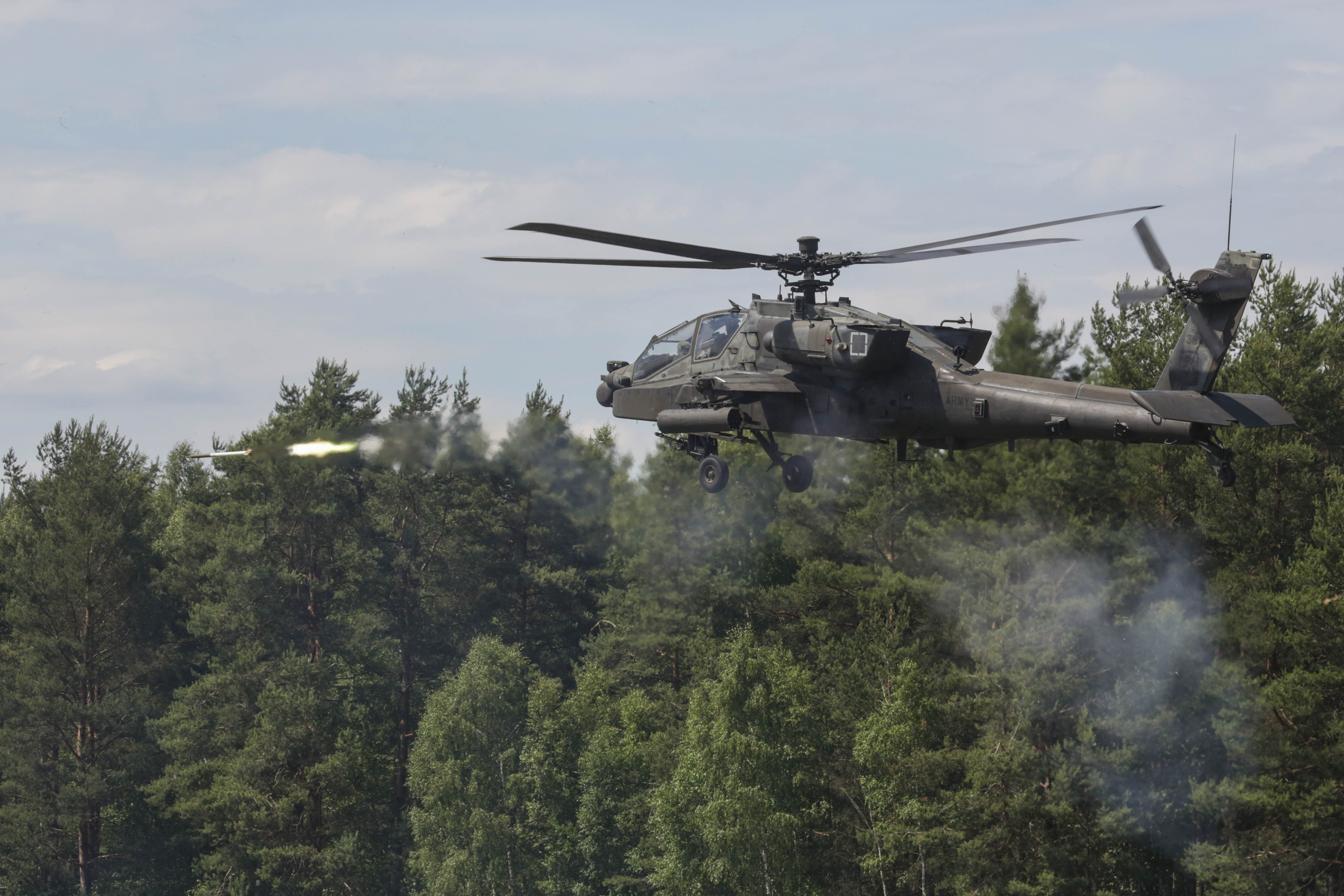 U.S. Soldiers assigned to the 12th Combat Aviation Brigade fire on targets from an Army AH-64D Apache Longbow helicopter during a combined arms live-fire operation at the Grafenwoehr Training Area in Bavaria, Germany, June 27th, 2014, as part of exercise Combined Resolve II. Combined Resolve II is a U.S.-led combined arms exercise designed to prepare U.S. and European forces for multinational operations.